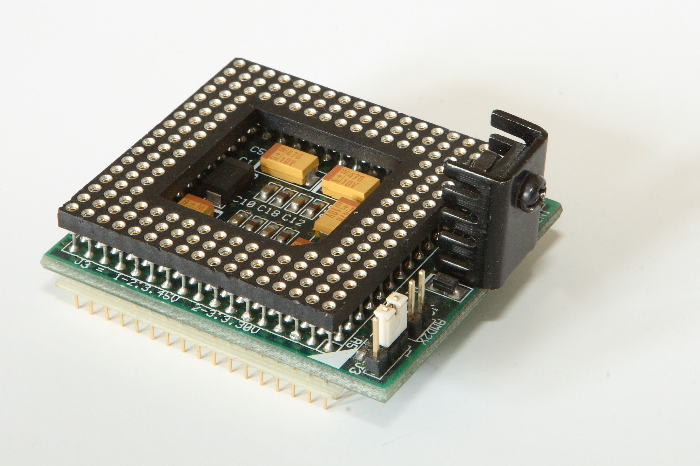 voltage converter for 80486 dx4 processors (5V to 3,3V) Camera data Camera Canon EOS 30D Lens Canon EF 24-70 mm 2.8 L USM Focal length 70 mm Aperture f/19 Exposure time 15 s Sensivity ISO 100 Image Editing Programs Canon Digital Photo Professional